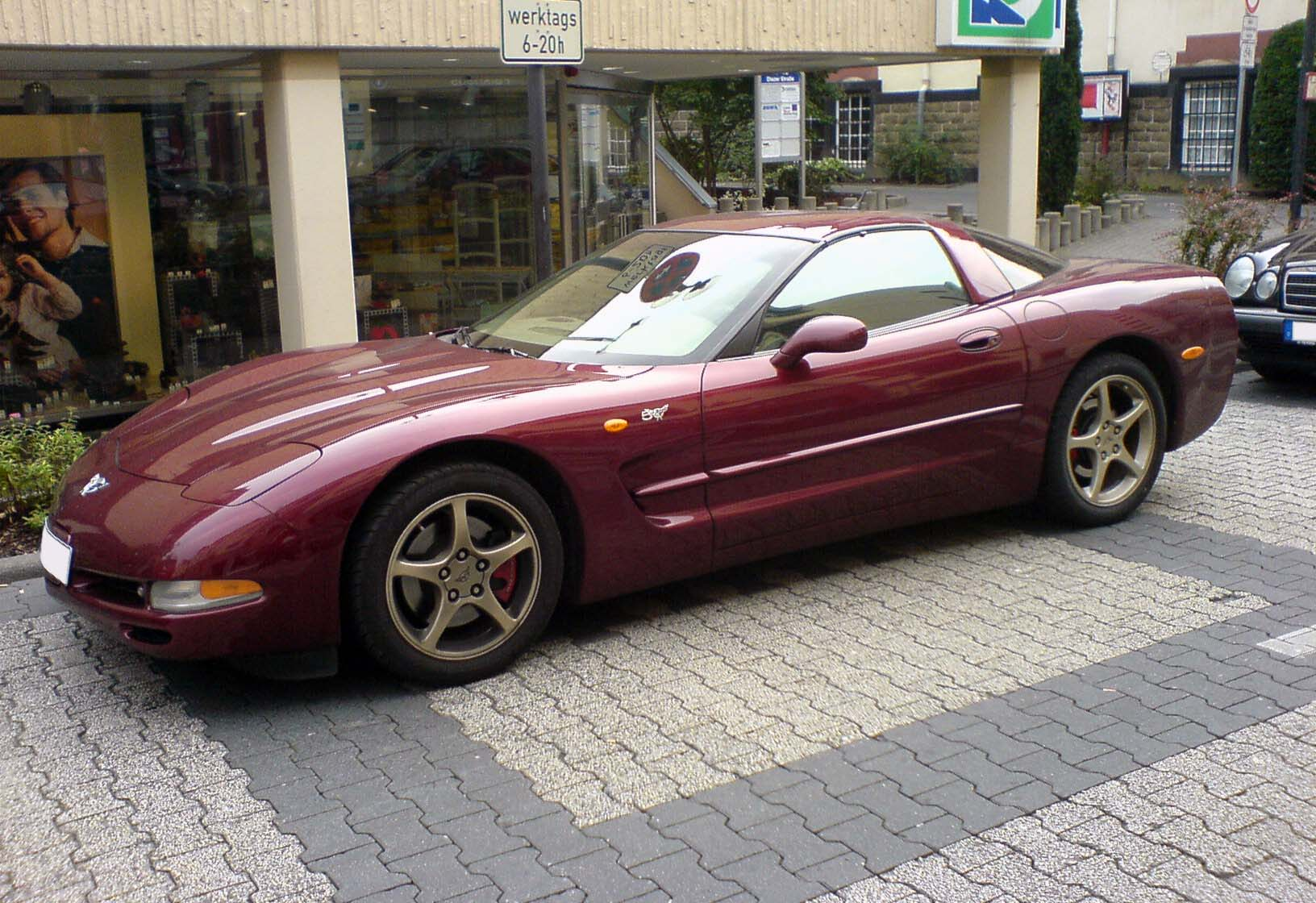 Corvette C5 50th Anniversary